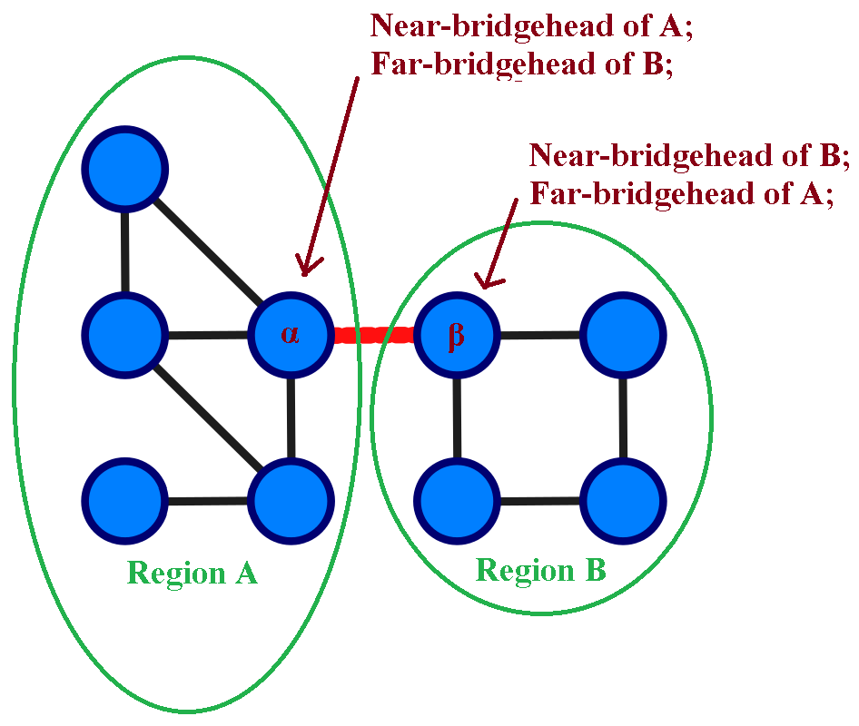 Bridgeheads of a bridge separating region A and B in graph theory 中文（台灣）: 圖論中分隔地域A與地域B之橋的橋頭堡